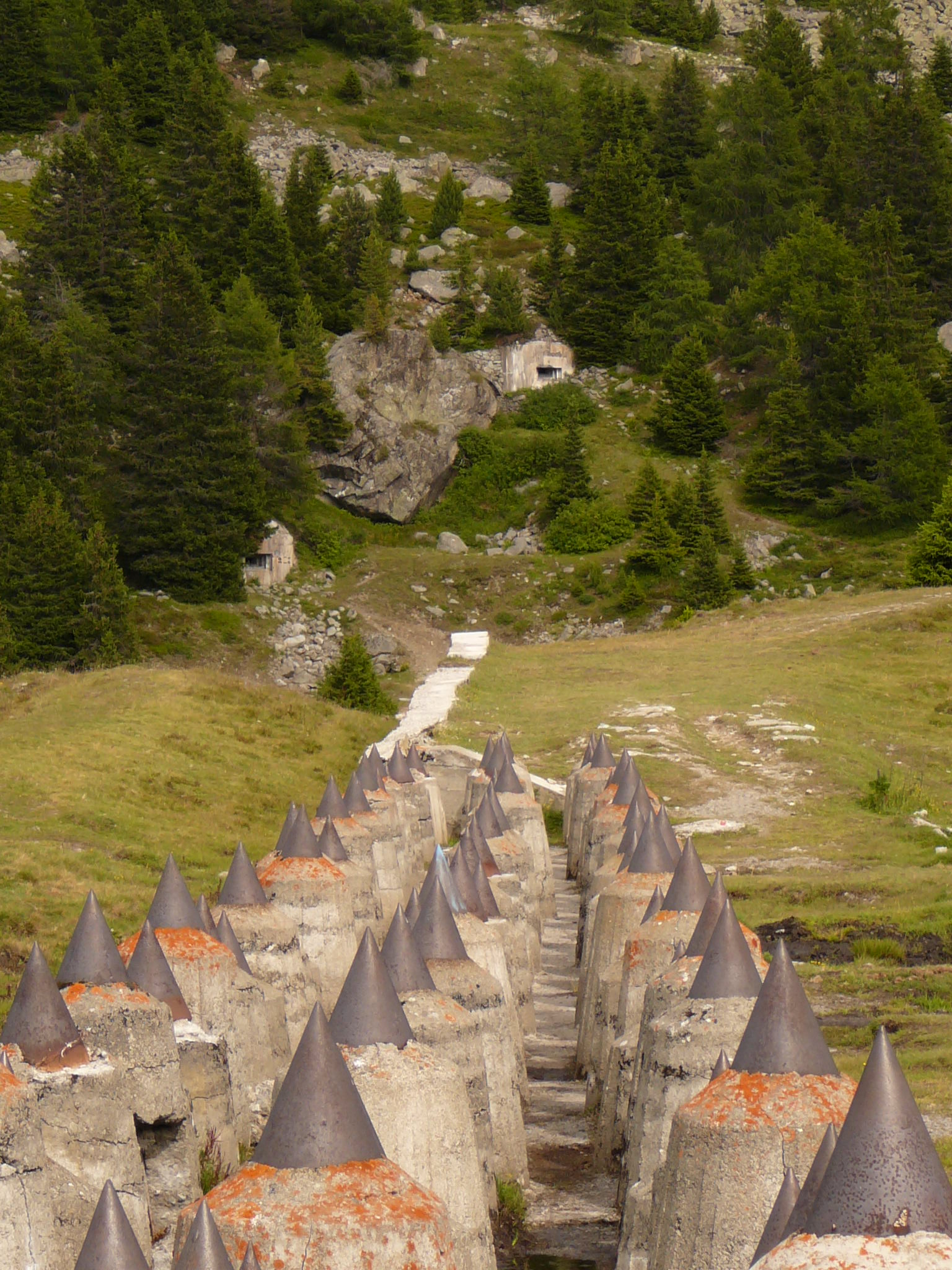 A military fosse and two bunkers in Pian dei Morti, Curon Venosta (BZ), Italy